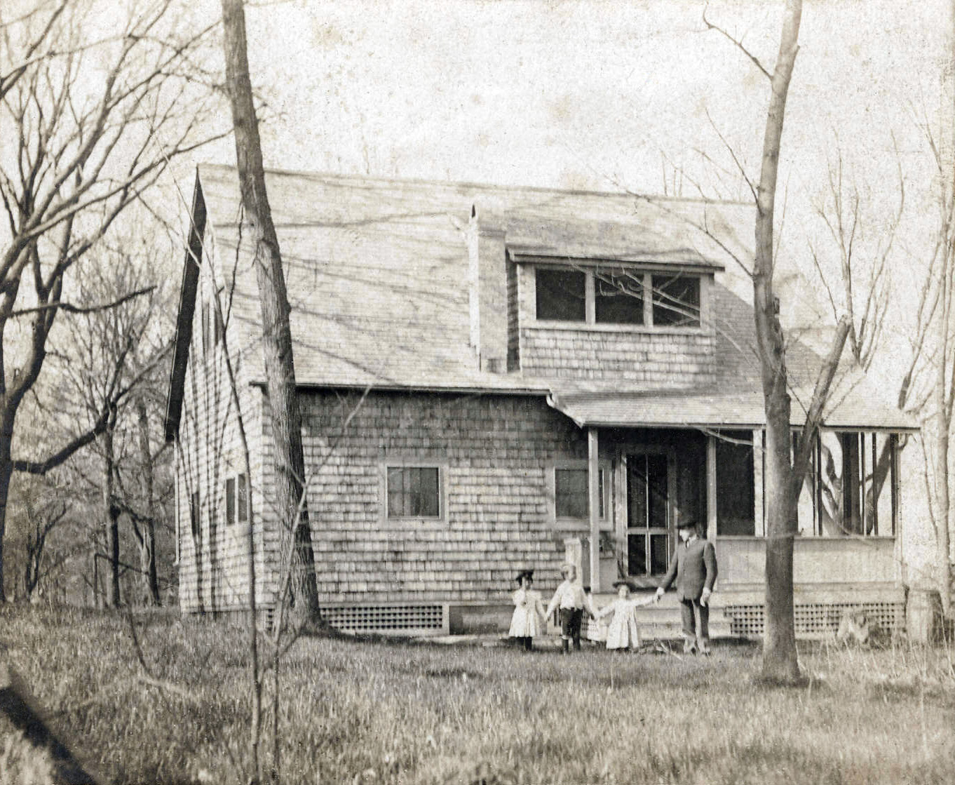 Photograph of American author Thornton Wilder as a child at the Wilder family cottage at Maple Bluff, Wisconsin, four miles from the family home at Madison. Pictured are Thornton Wilder's father Amos (standing) with Charlotte, Thornton and Madison, the three eldest Wilder children. Image courtesy of the Beinecke Rare Book & Manuscript Library, Yale University.[1]